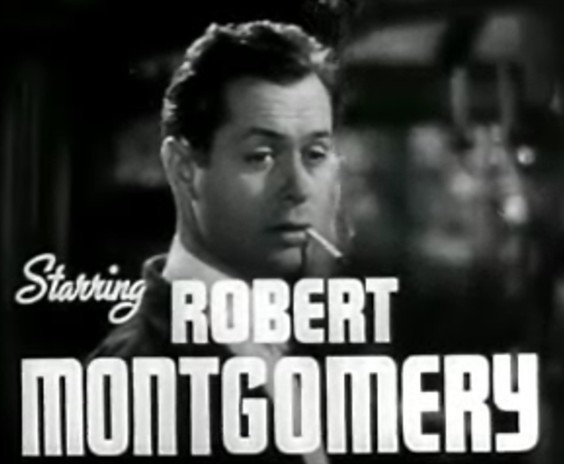 Cropped screenshot of Robert Montgomery from the trailer for the film Night Must Fall